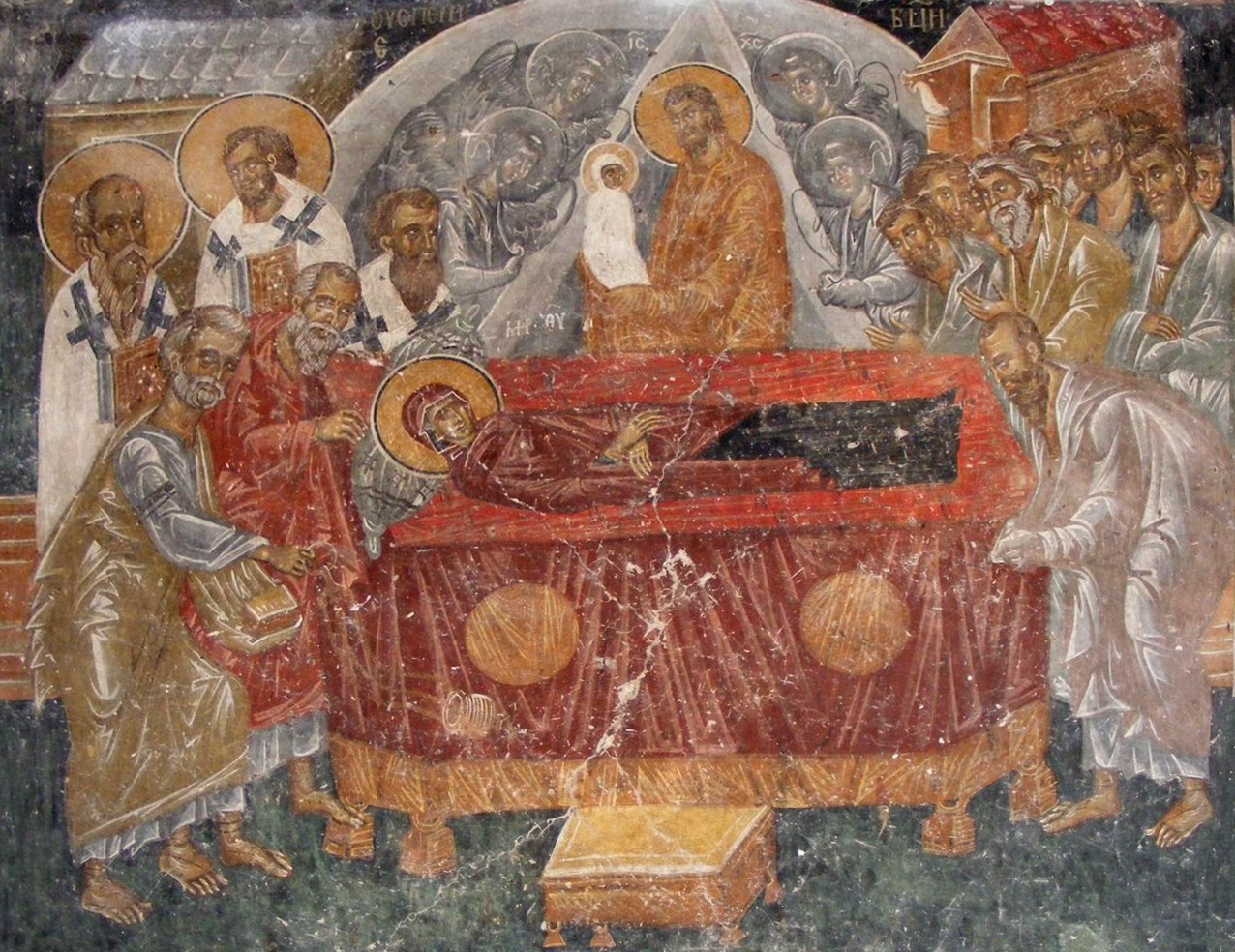 14th-century fresco of the Dormition of the Mother of God in the Church of St Peter in the village of Berende, Dragoman Municipality, Sofia Province, westernmost Bulgaria.